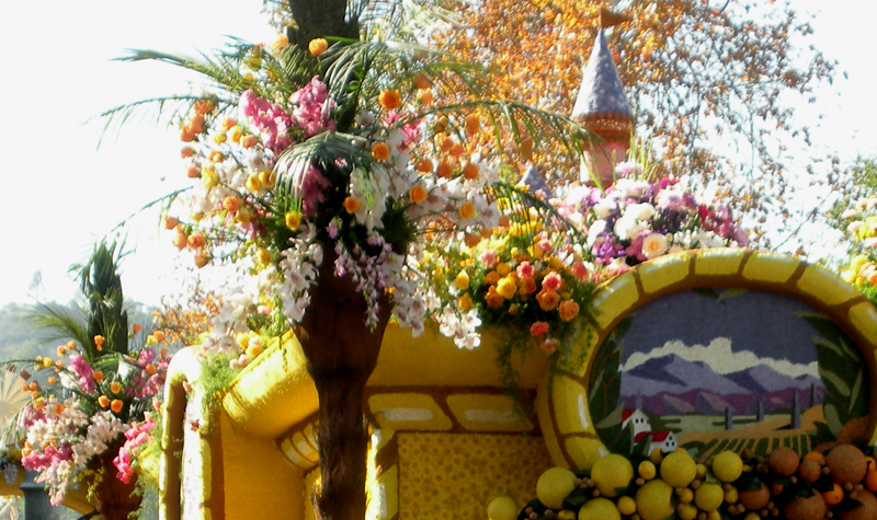 Flowers used in a 2009 Rose Parade float, Pasadena CA